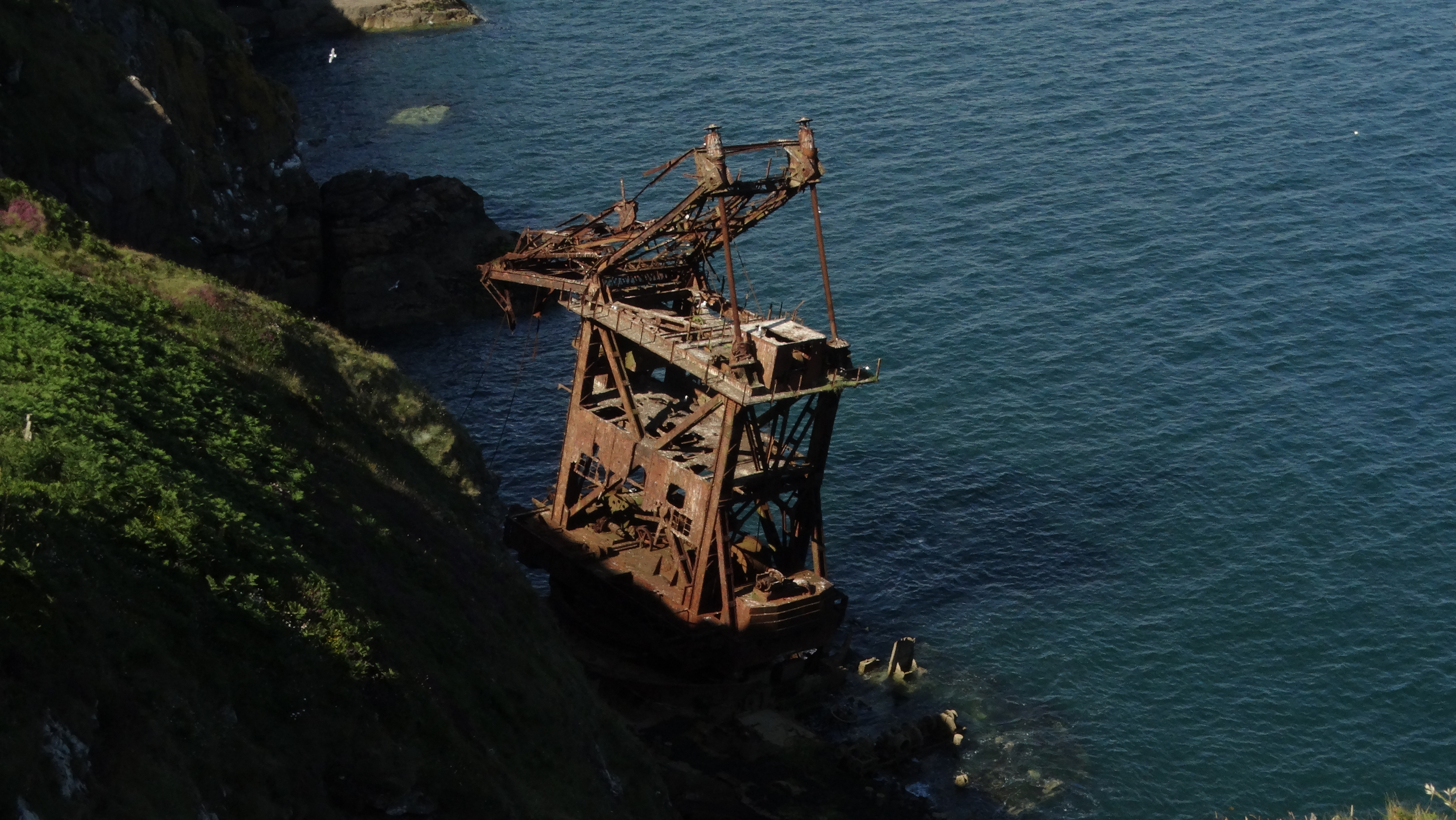 Shipwreck of crane barge Samson at Ram Head, Ardmore, Co Waterford